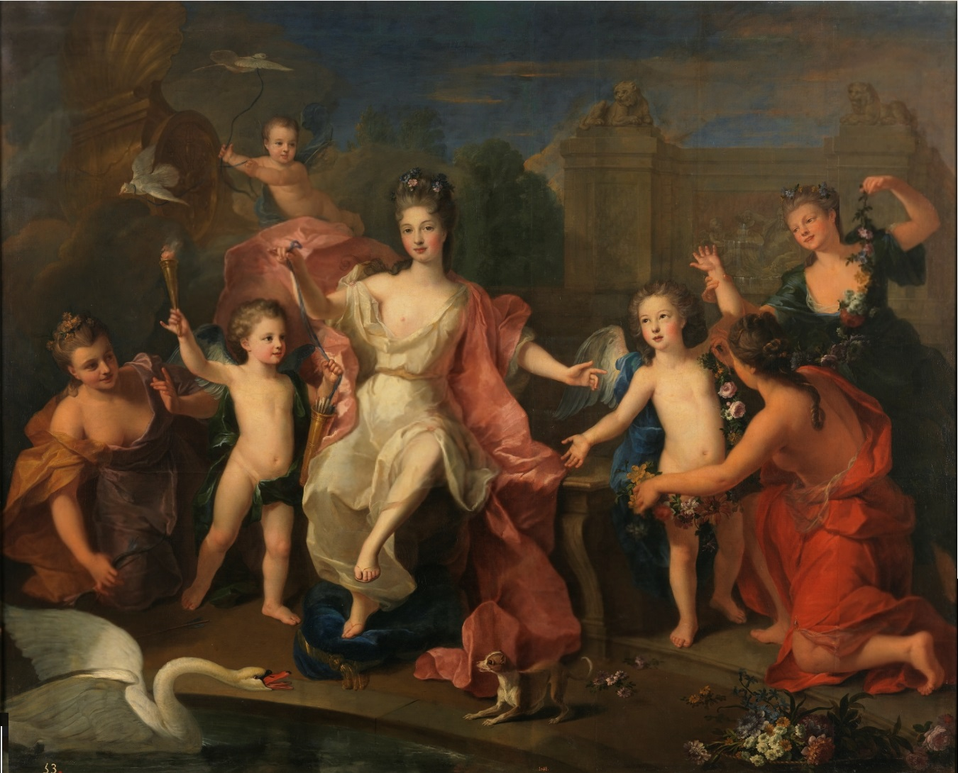 Caption from the museum